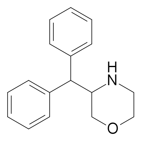 Structure of 3-benzhydrylmorpholine.